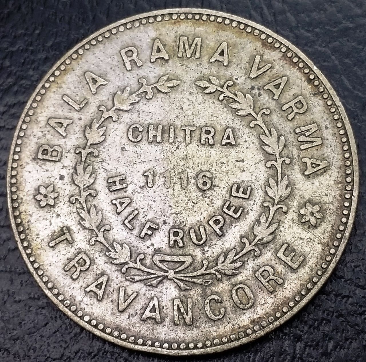 Travancore Half Rupee - 1116 - Front - Kerala